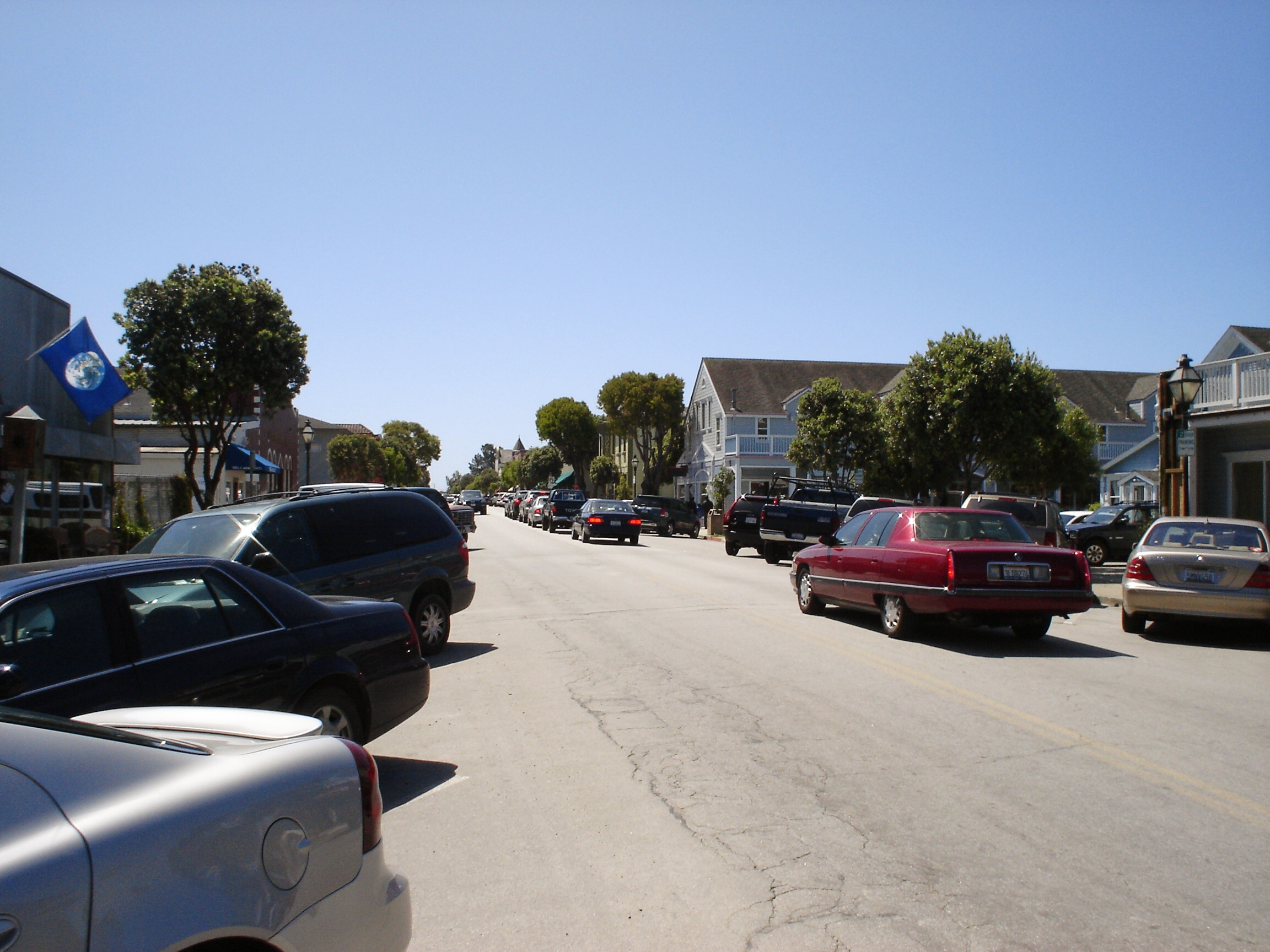 Author:Robert E. Nylund Source:Personal Photos